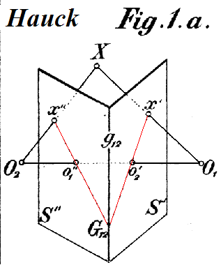 picture of the vision by two cameras of a point in the 3D space, epipolar vision.